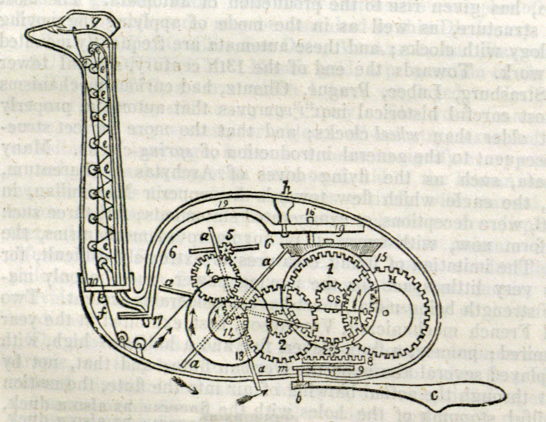 Engraving from A Dictionary of Arts, Manufactures, and Mines.